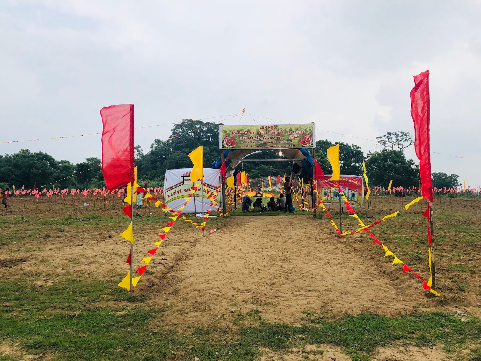 Maveerar thuyilumillam